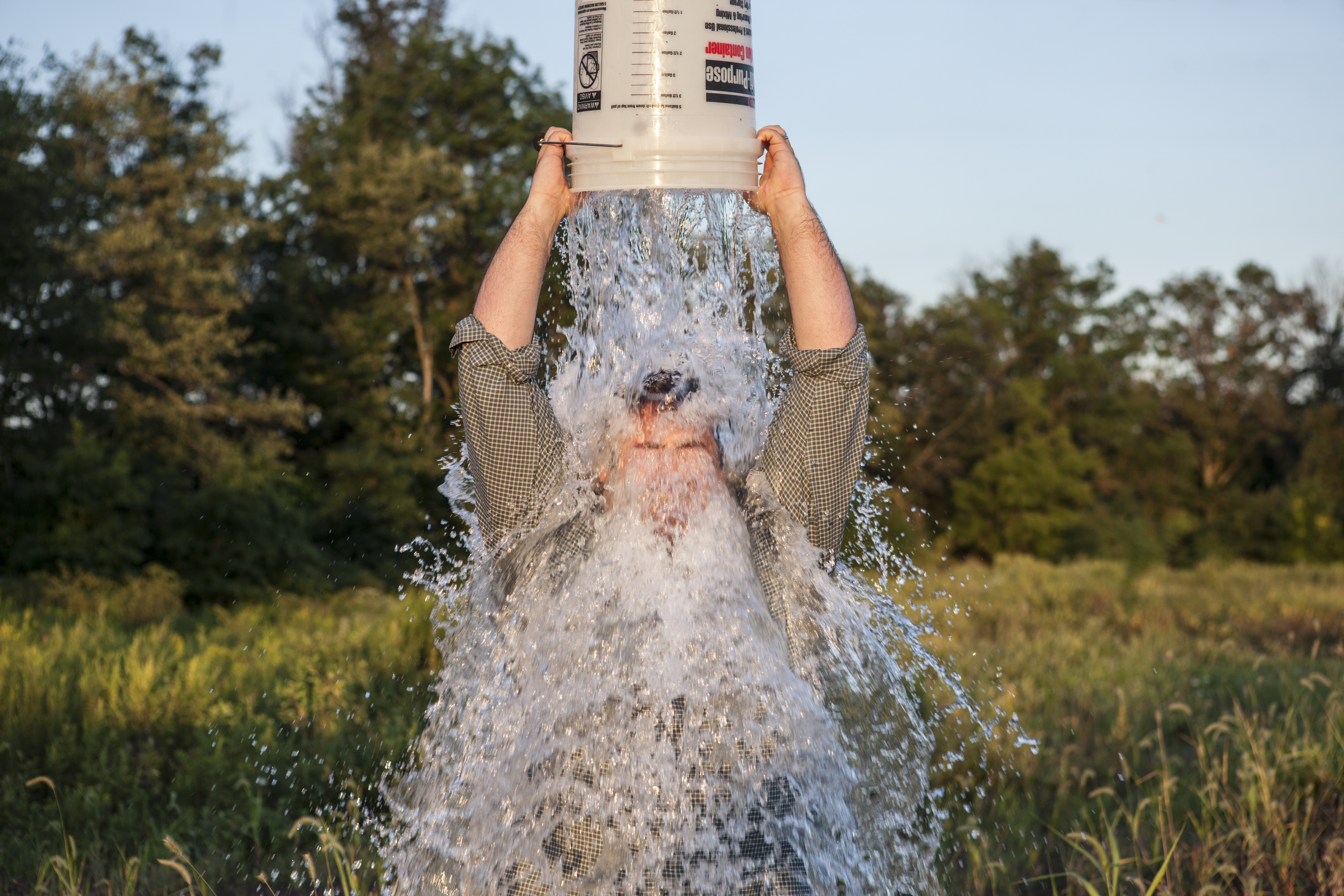 See the video here: Used a GoPro to have the perspective from inside the bucket. Photo taken by my wife Kim Quintano. Check out her photography here